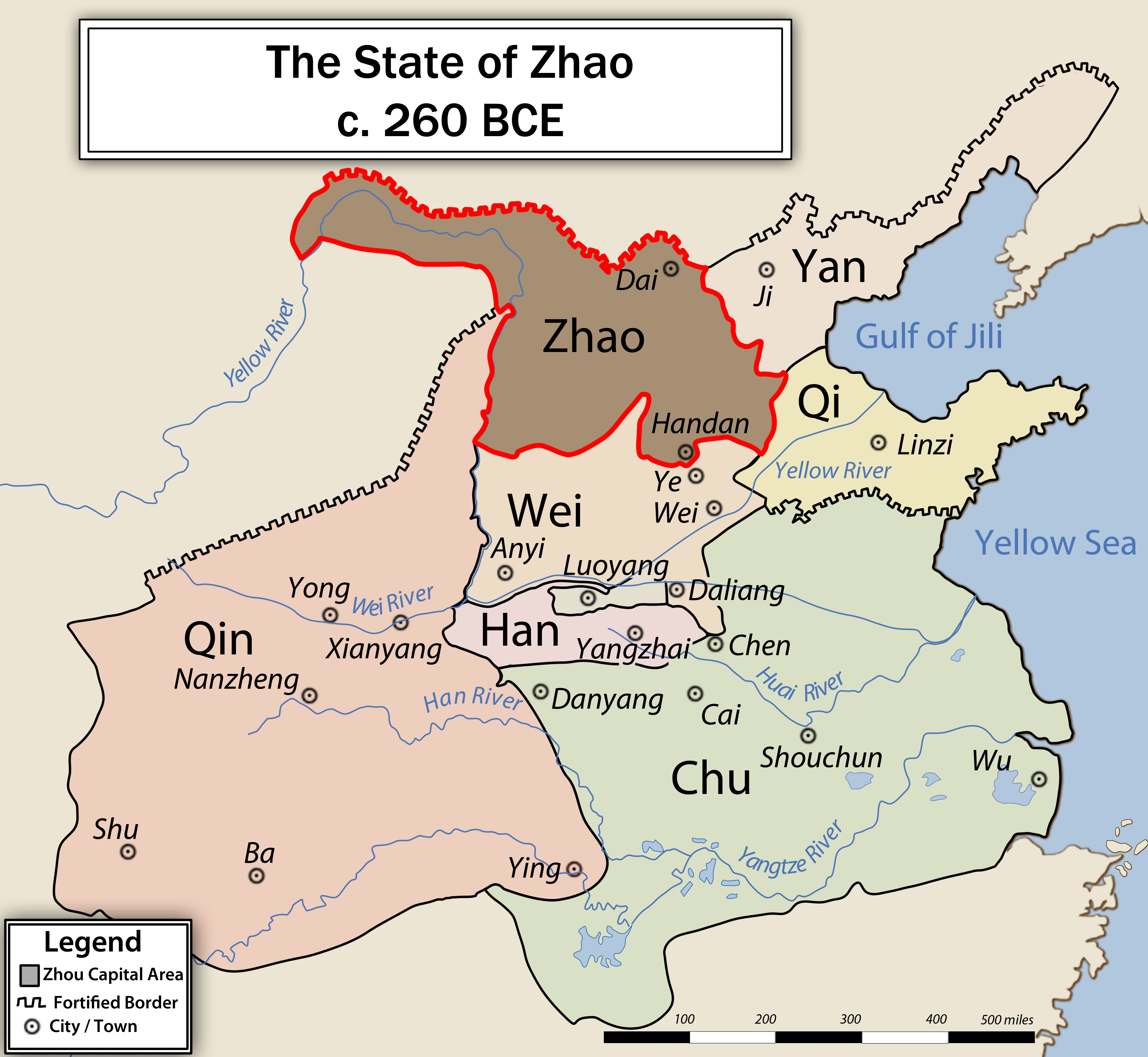 China Map, Zhao State, 260BCE